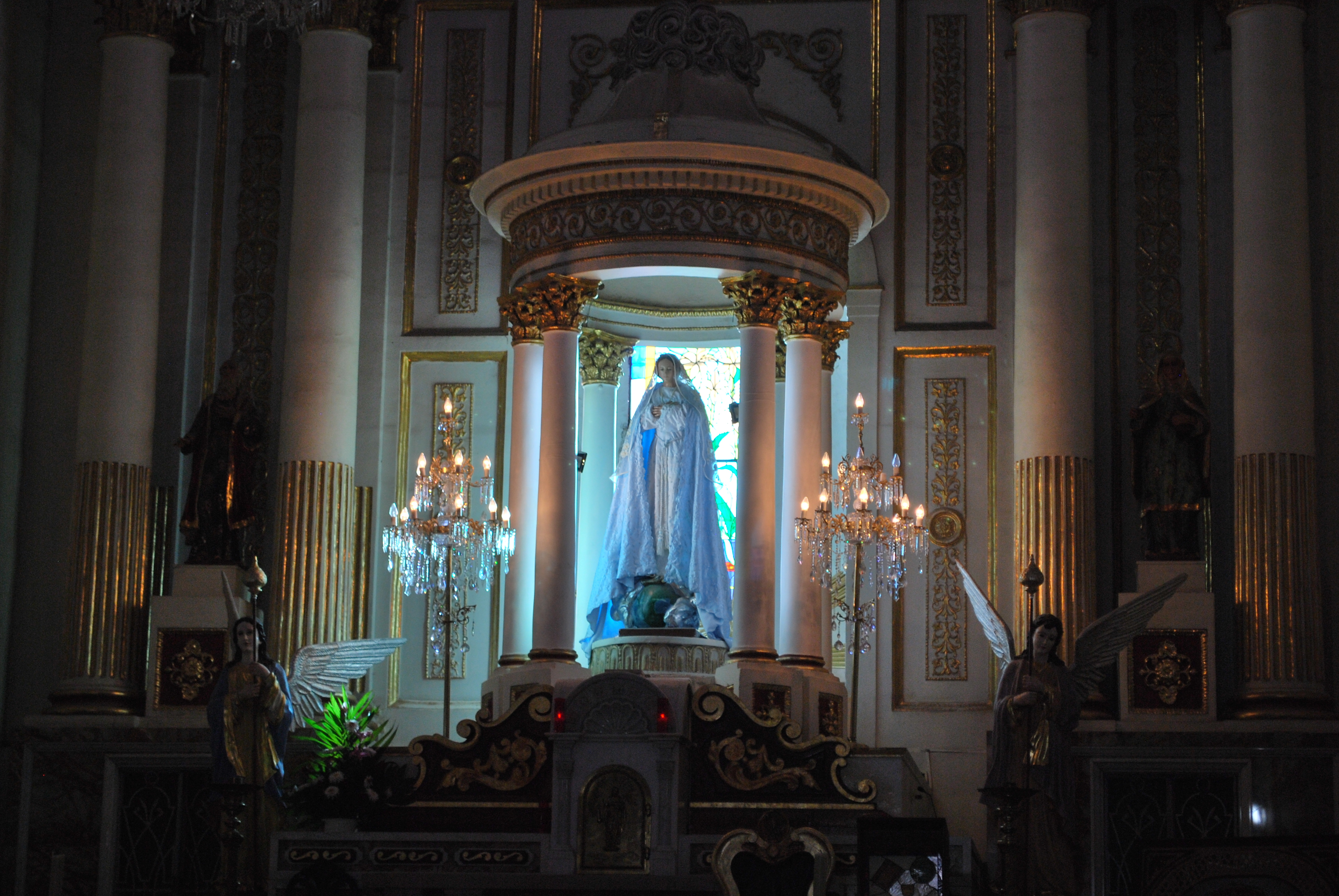 Image of the Virgin of Guadalupe at the Purisima Concepcion parish in Zumpango, Mexico State